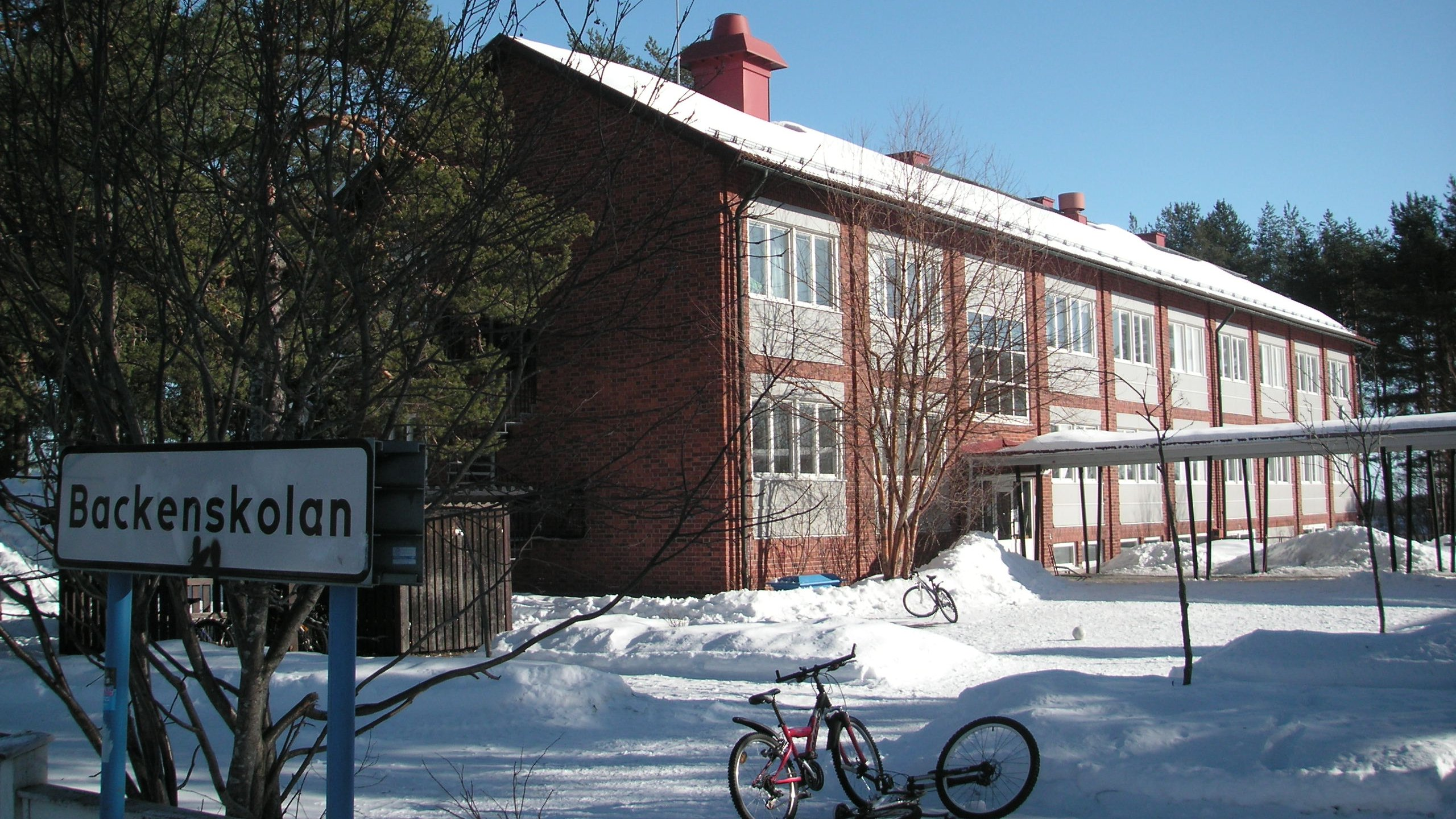 School "Backenskolan" in Umeå, Sweden.